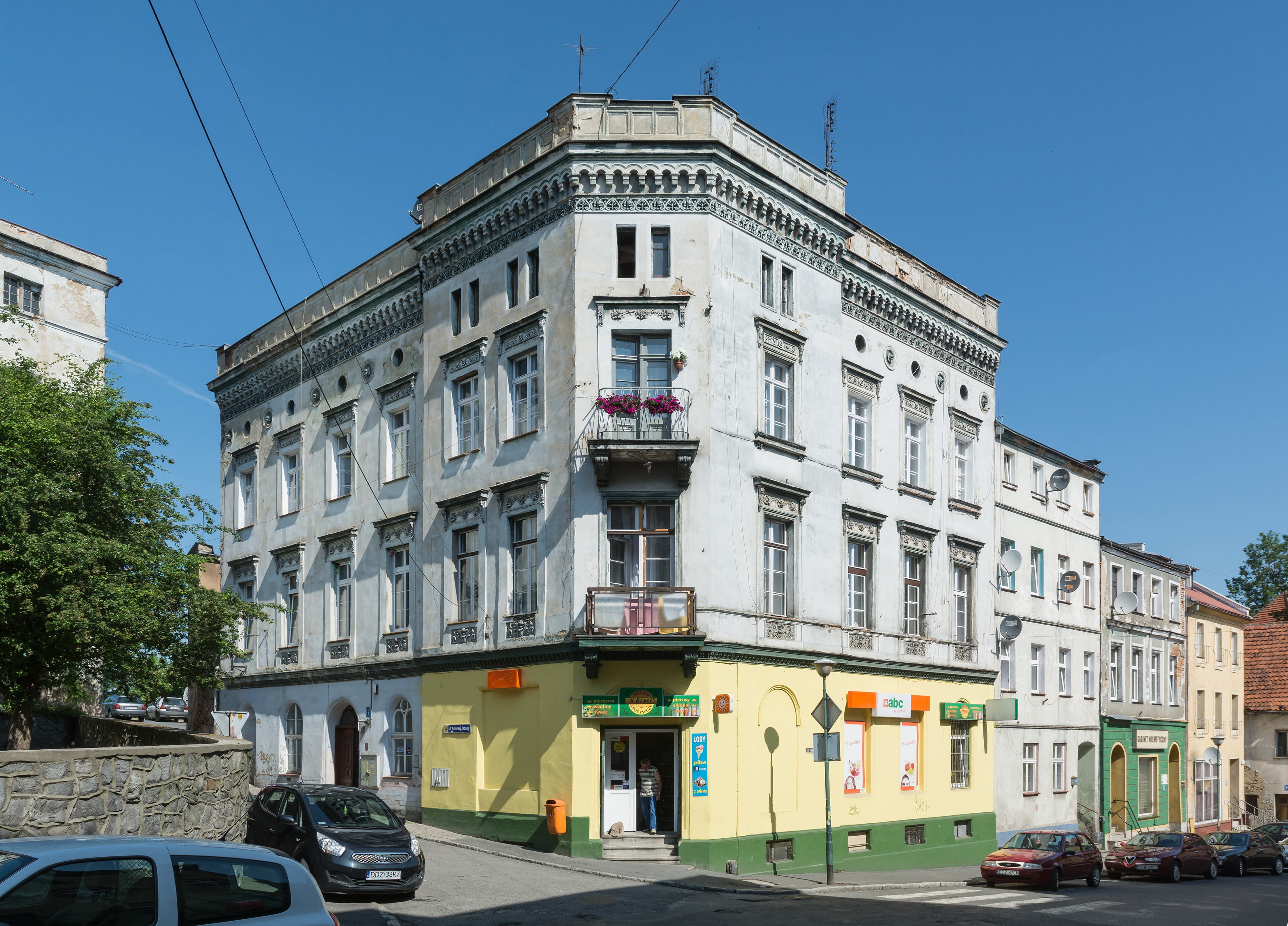 1 Królowej Jadwigi Street in Niemcza